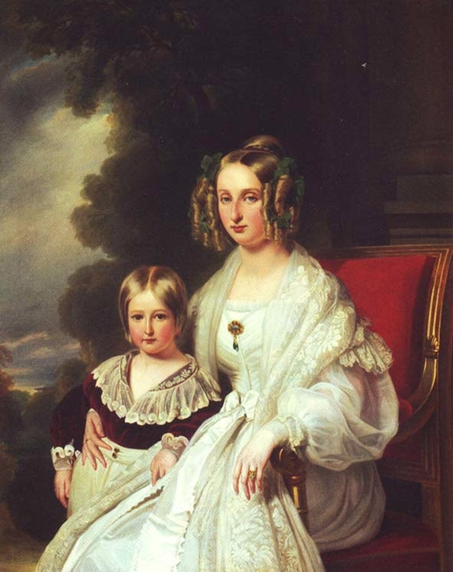 uise Marie of Orleans and Prince Leopold